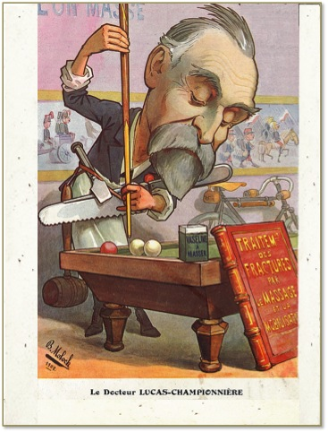 Caricature of members of the Academy of Medicine (Paris) designed by Hector Moloch (signing B. Moloch) and published in the journal "Chanteclair". Each cartoon is added a doctor's photography.